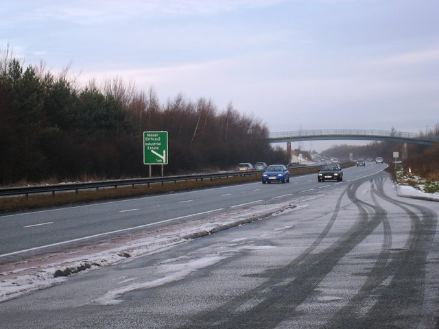 South-bound Boxing Day traffic on the A19 near Hylton Castle This photograph depicts some of the Boxing Day traffic flow on the south-bound carriageway of the A19 road near Hylton Castle (Sunderland). The footbridge shown in the right-hand side of the picture carries pedestrian traffic across the road.